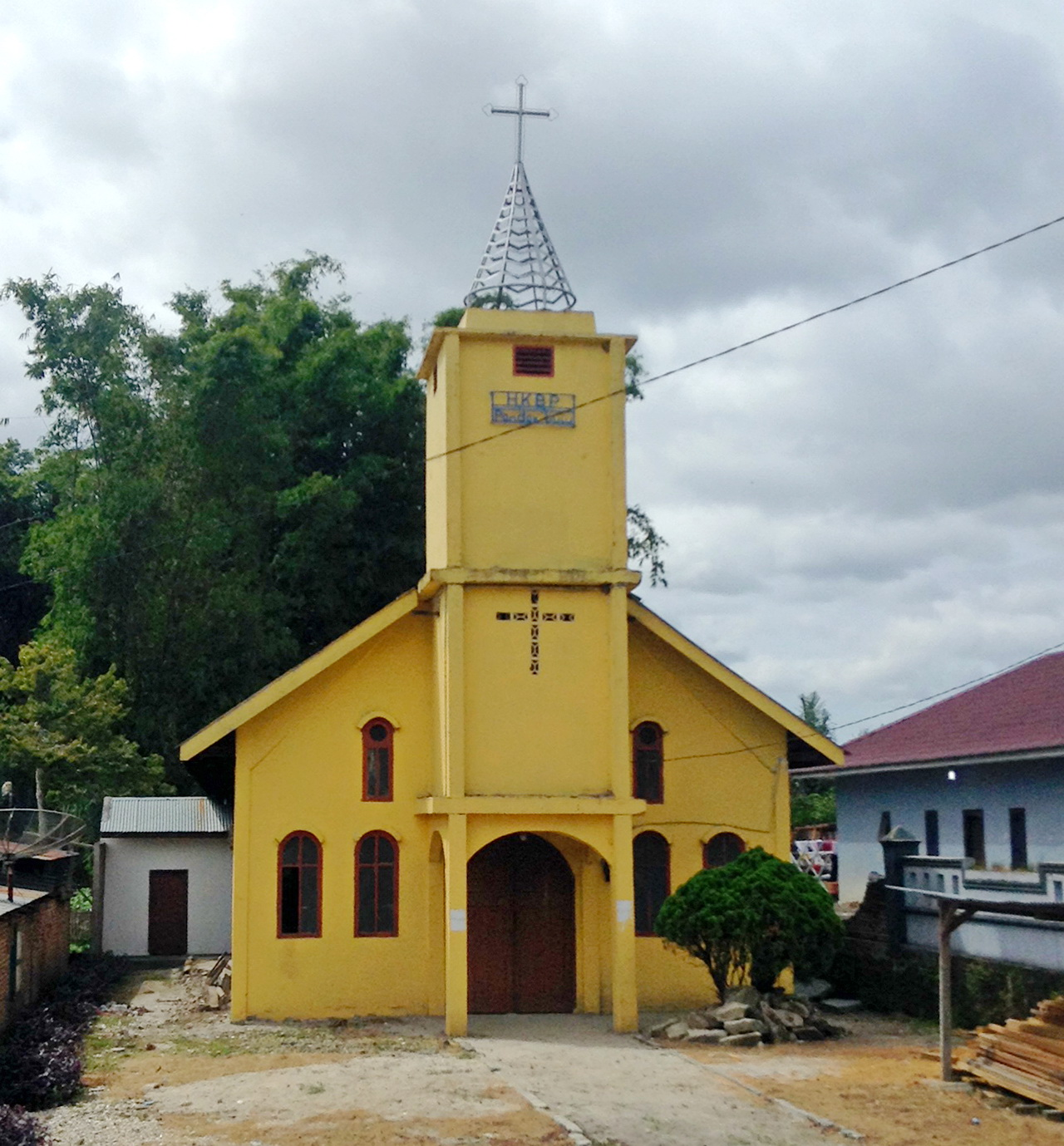 HKBP Pondok Bulu, Church in Pondok Bulu, Dolok Panribuan, Simalungun